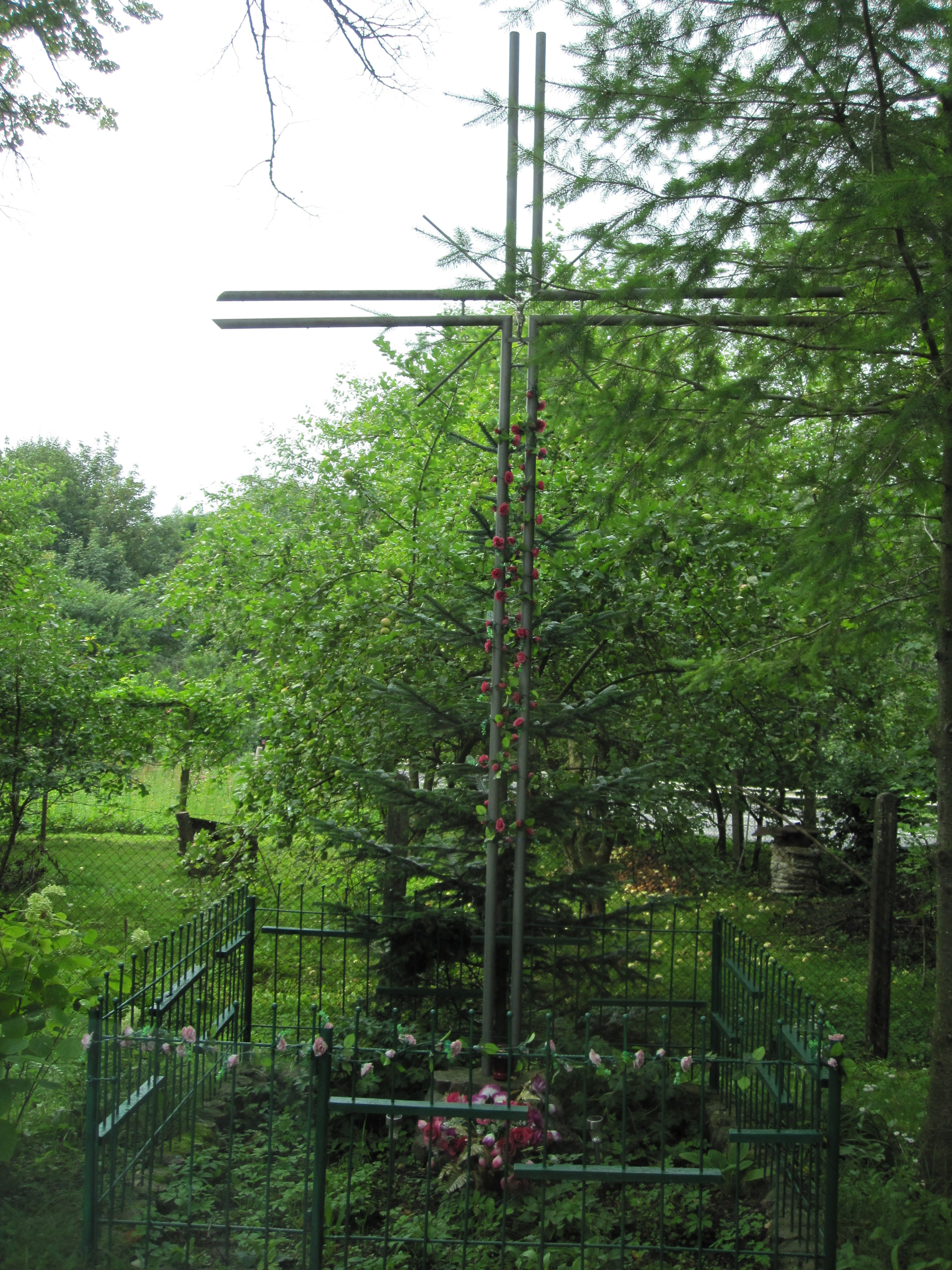 Kozarek Wielk - wayside cross